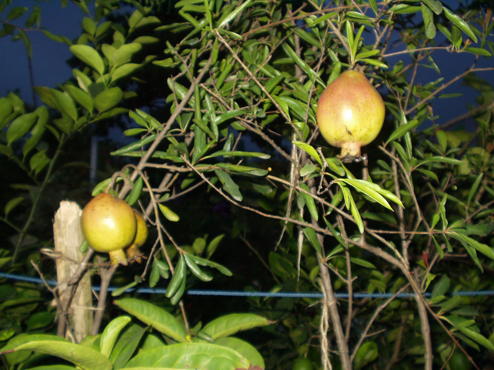 dalim a local fruits of BD. Mamun2a 06:04, 23 August 2006 (UTC)